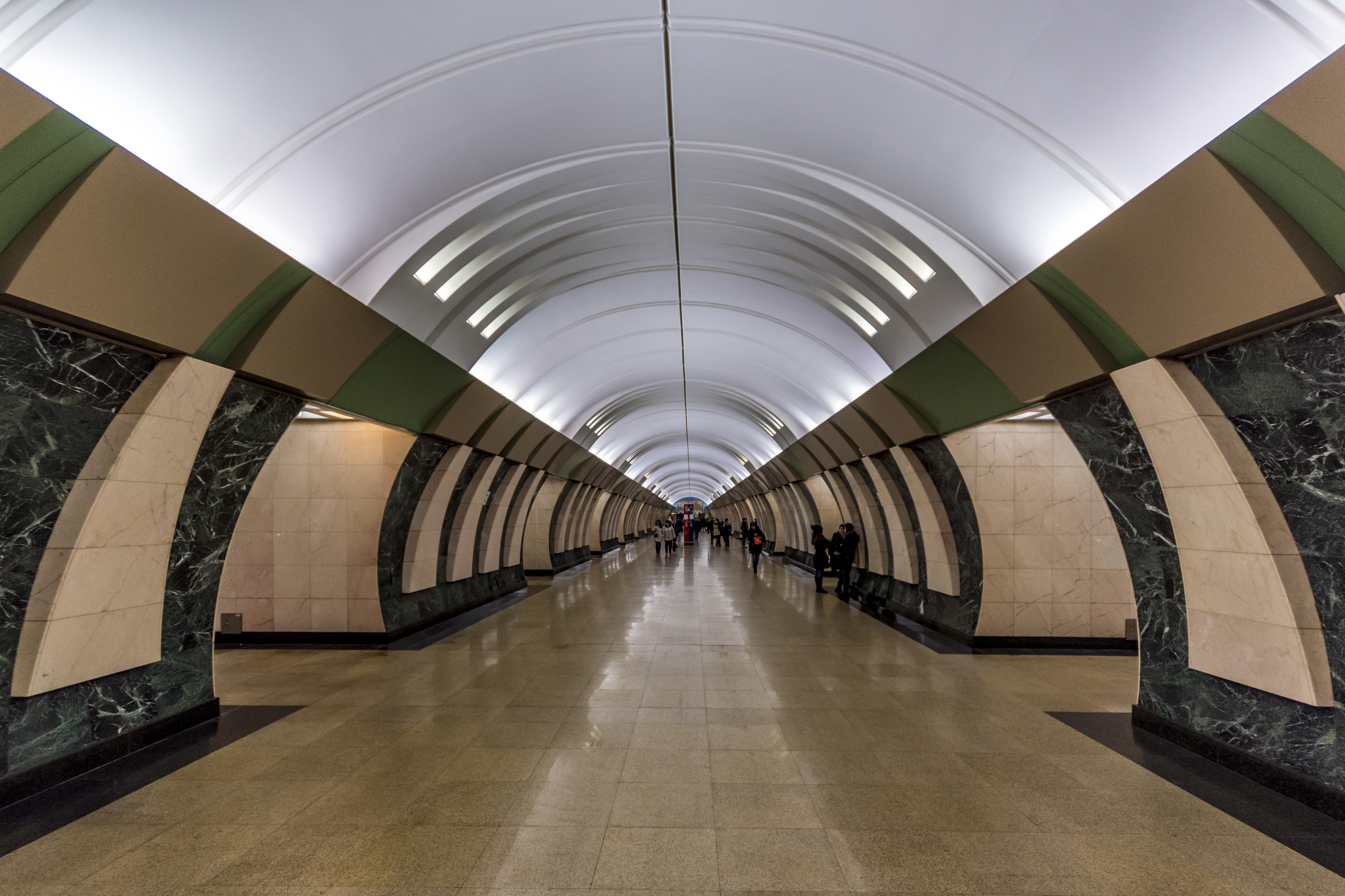 Maryina Roshcha Station of Moscow Subway